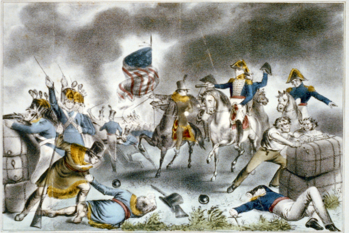 "The battle of New Orleans, fought Jany 8th 1814" (sic, Battle was 8 Jan 1815). 1840s color engraving depicting the Battle of New Orleans at Chalmette.